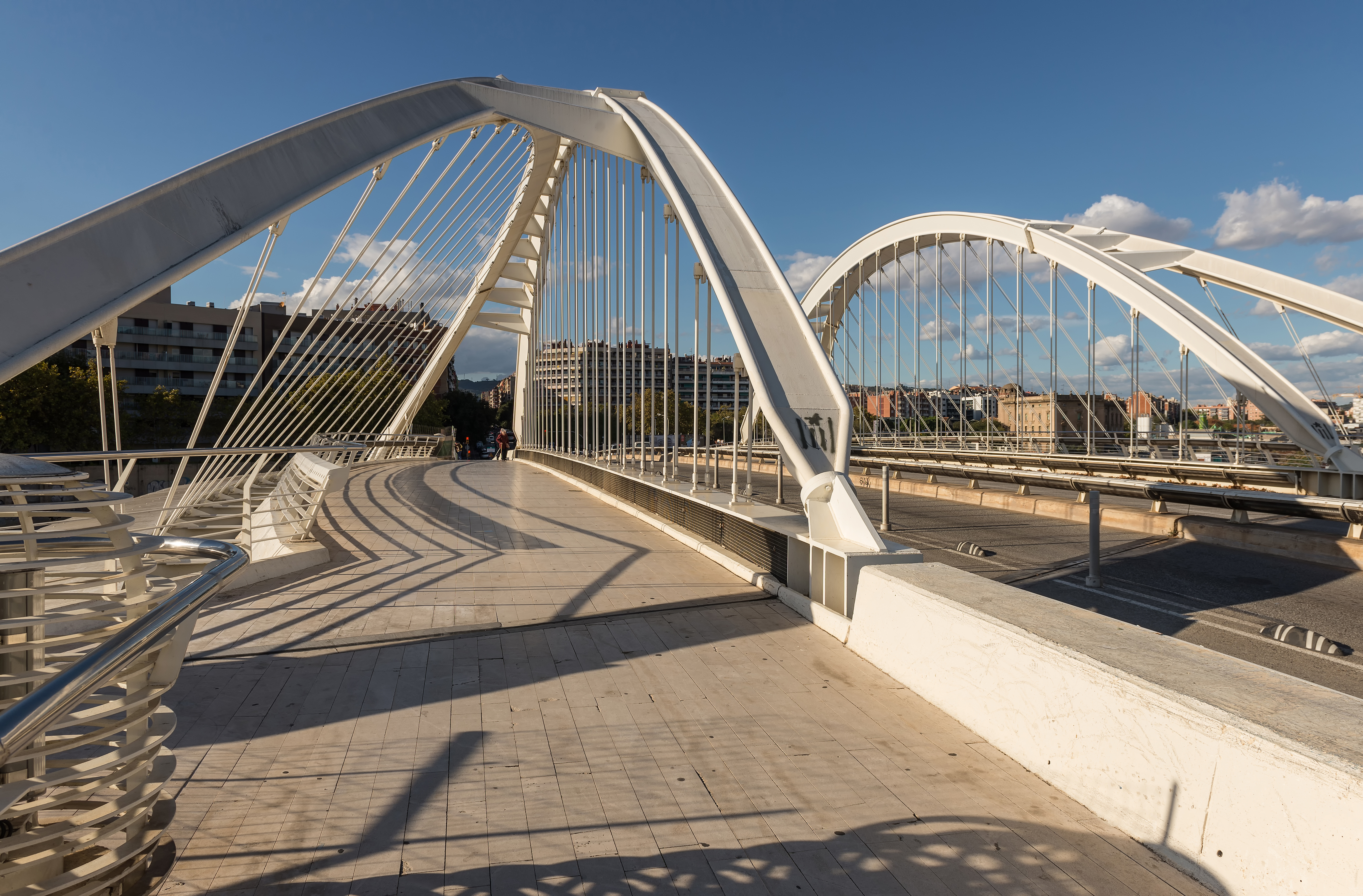 Bac de Roda Bridge of architect Santiago Calatrava in Barcelona